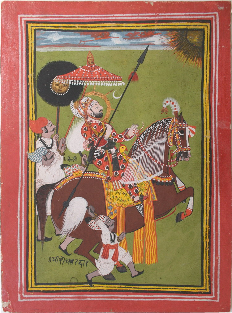 Posthumous equestrian portrait of Maharana Ari Singh (r. 1761-73). Mewar, circa 1820-40. Opaque watercolour with gold on wasli. 30.4 x 22.3cm The inscriptions inform that the artist was Memji, with two of the attendants named: Keso and Piro chabardar (the chawar/chauri-bearer).